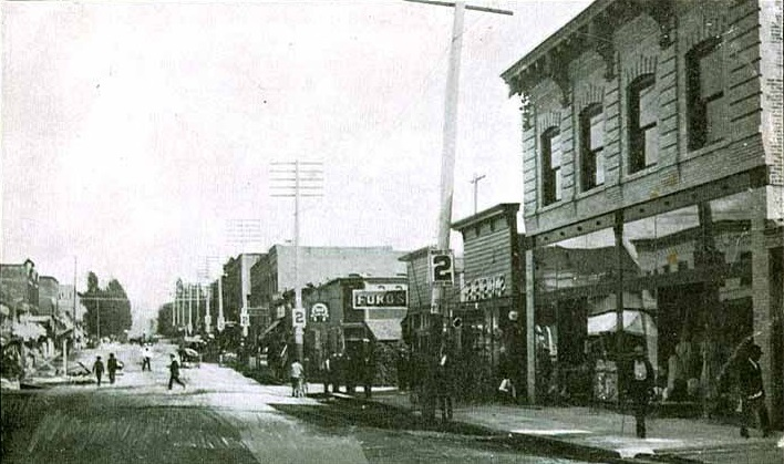 Caption on image: Sherman Street, Coeur d'Alene, Idaho Coeur d'Alene was established in 1887 in northern Idaho near Fort Sherman. In the 1890's it served as a transfer point between silver mines in northern Idaho and their smelters. From 1900 on Coeur d'Alene served as the center of a major timber industry boom. Sherman Street (now Sherman Avenue) is in the main shopping district, which is in downtown Coeur d'Alene. Subjects (LCTGM): Streets--Idaho--Coeur d'Alene; Business districts--Idaho--Coeur d'Alene Subjects (LCSH): Sherman Street (Coeur d'Alene, Idaho); Coeur d'Alene (Idaho)--Buildings, structures, etc.